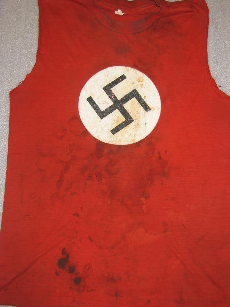 Sid Vicious Swastika t-shirt